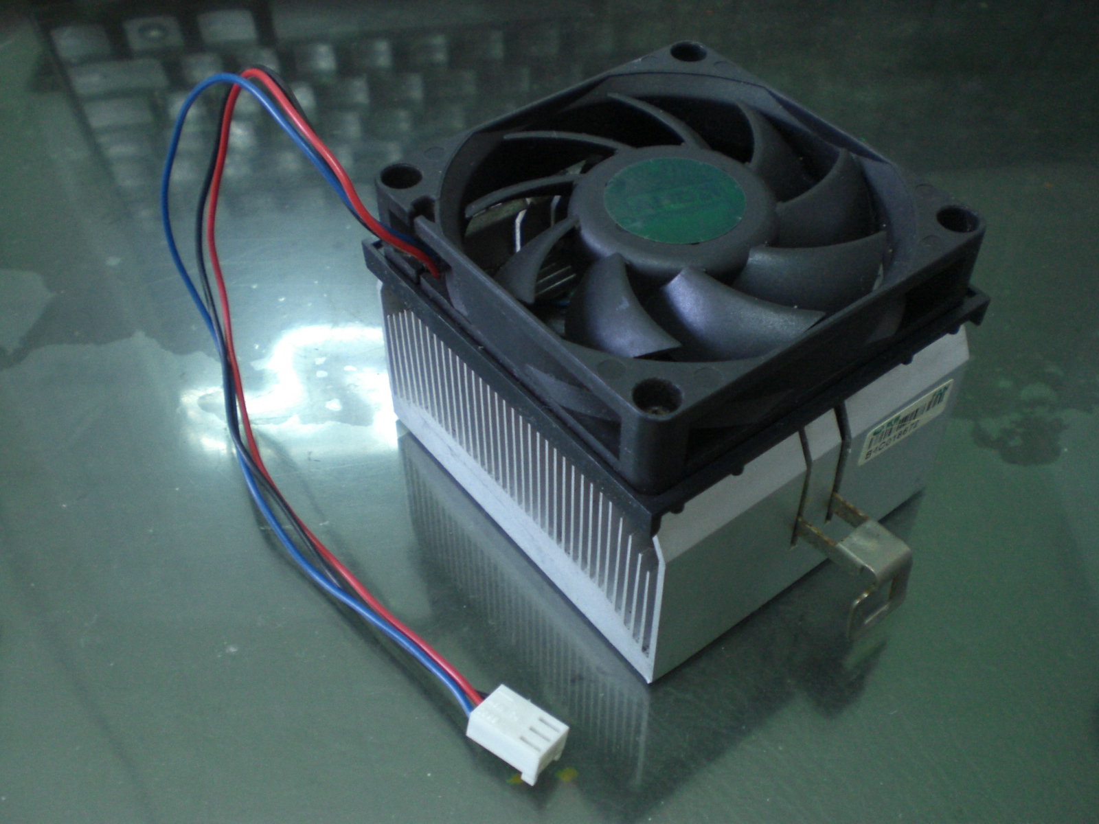 AMD Socket AM2/940/939/754 Aluminum Cooler CMDK8-7152D-A3 中文（台灣）: AMD Socket AM2/940/939/754系列CPU專用原廠鋁質散熱風扇CMDK8-7152D-A3